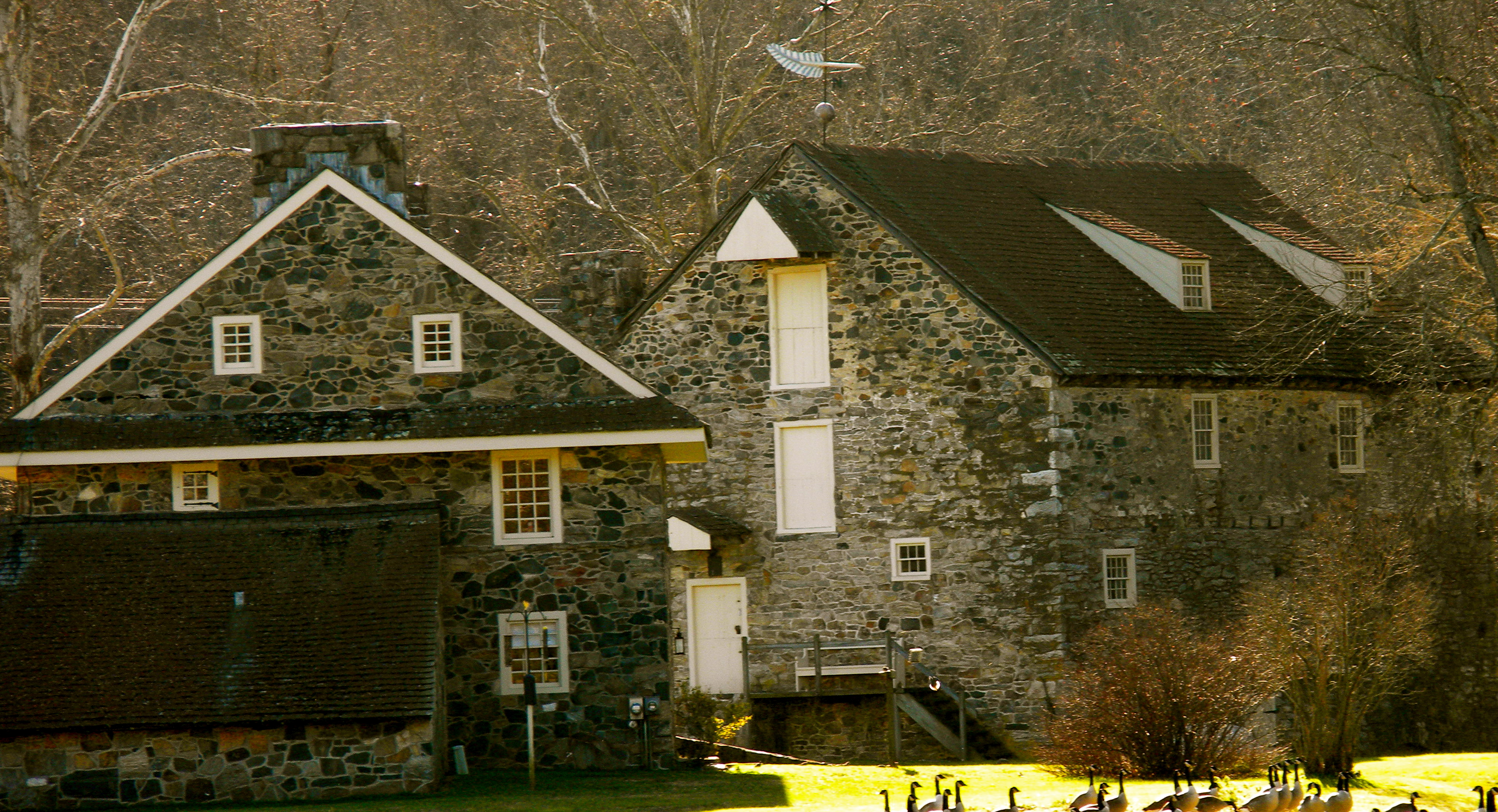 Brinton's Mill, just north of Chadds Ford PA, in CHESTER County (not Delaware). On NRHP. This photo is my own work and I donate it to the public domain